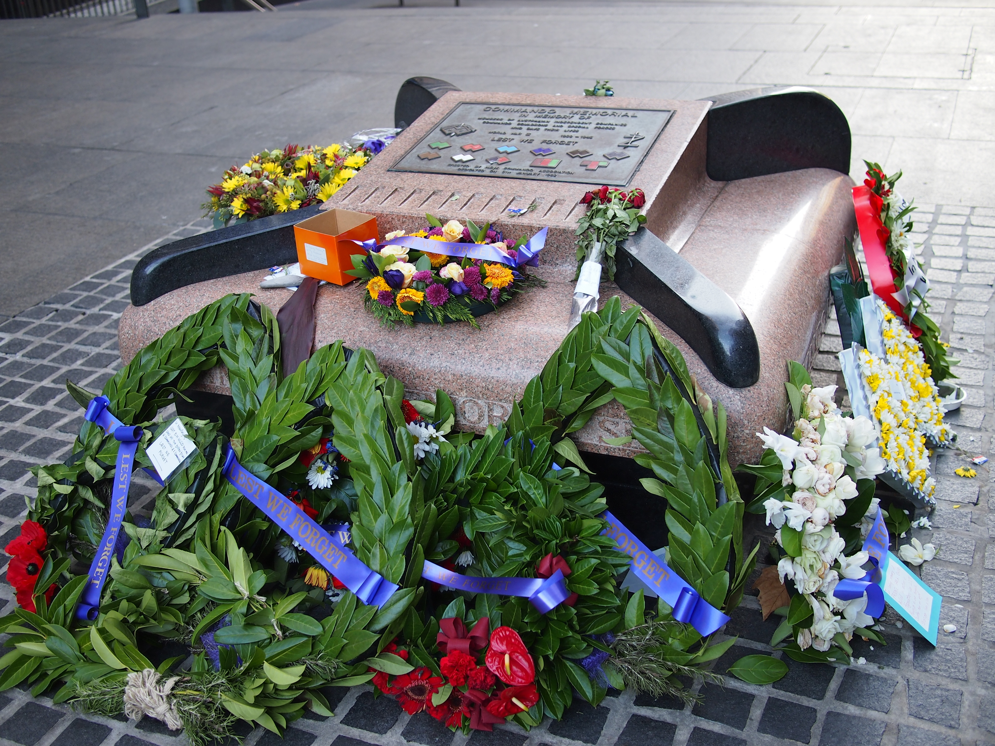 The Commando Memorial in Martin Place after Anzac Day 2013